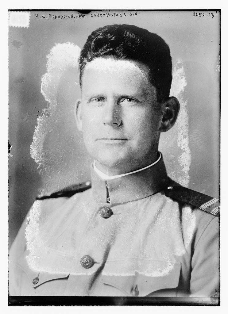 Holden Chester Richardson (1878-1960) circa 1915